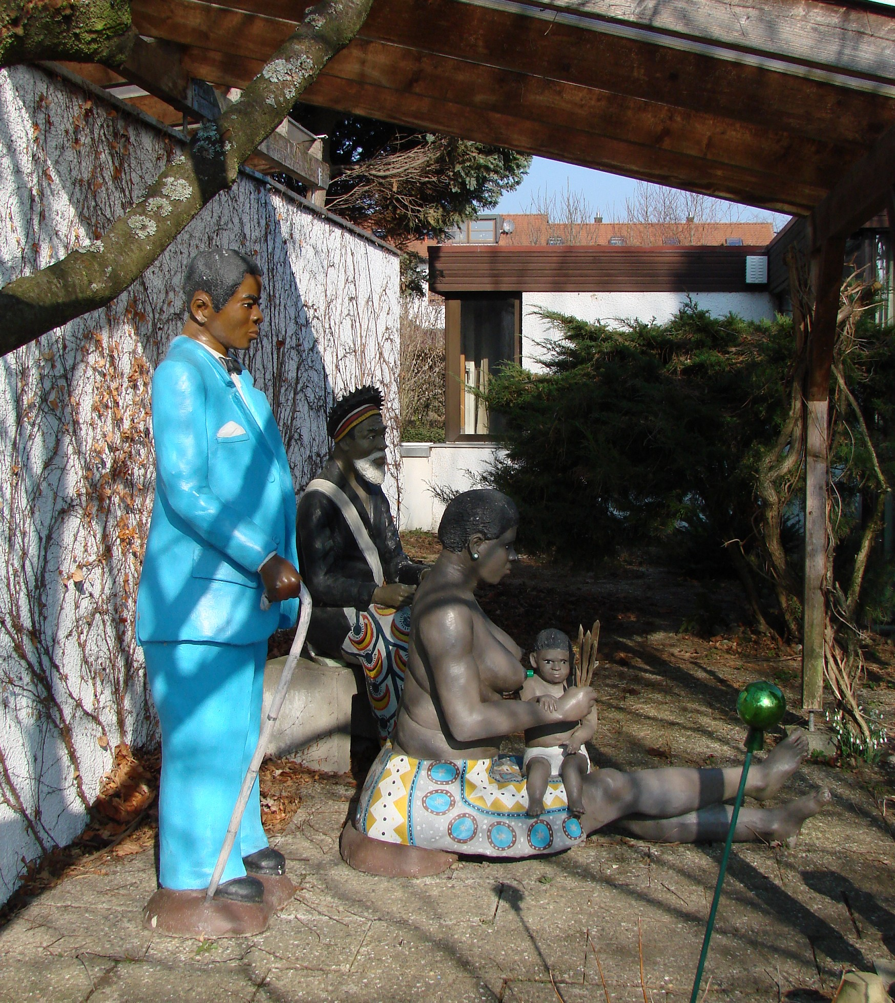 Freiberg am Neckar, Afrikahaus, sculptures of concrete, 1986, by Aniedi Okon Akpan and Sunday Jack Akpan